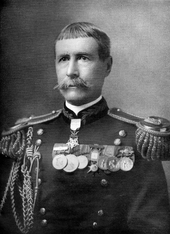 William Preble Hall, Medal of Honor Recipient and Adjutant General of the U.S. Army.